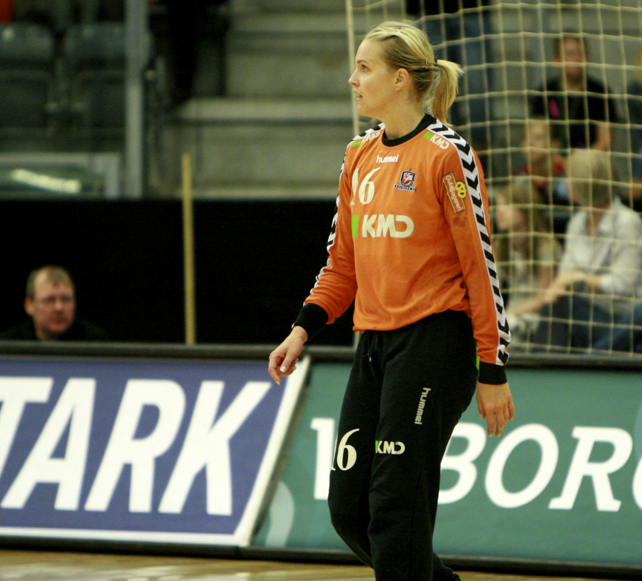 Madeleine Grundström, keeper for Aalborg DH.